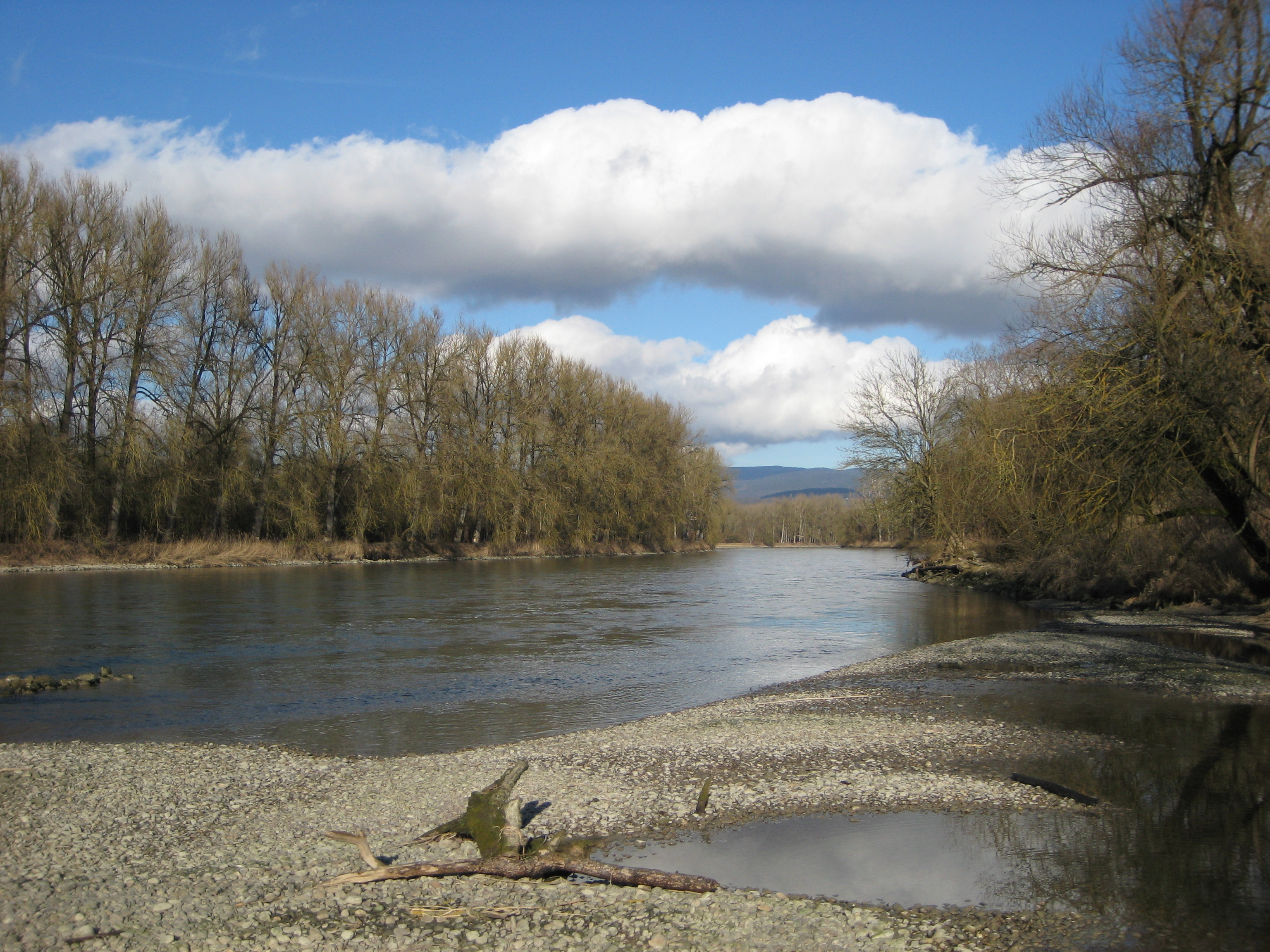 The Isar about 2 km from the confluence with the Danube